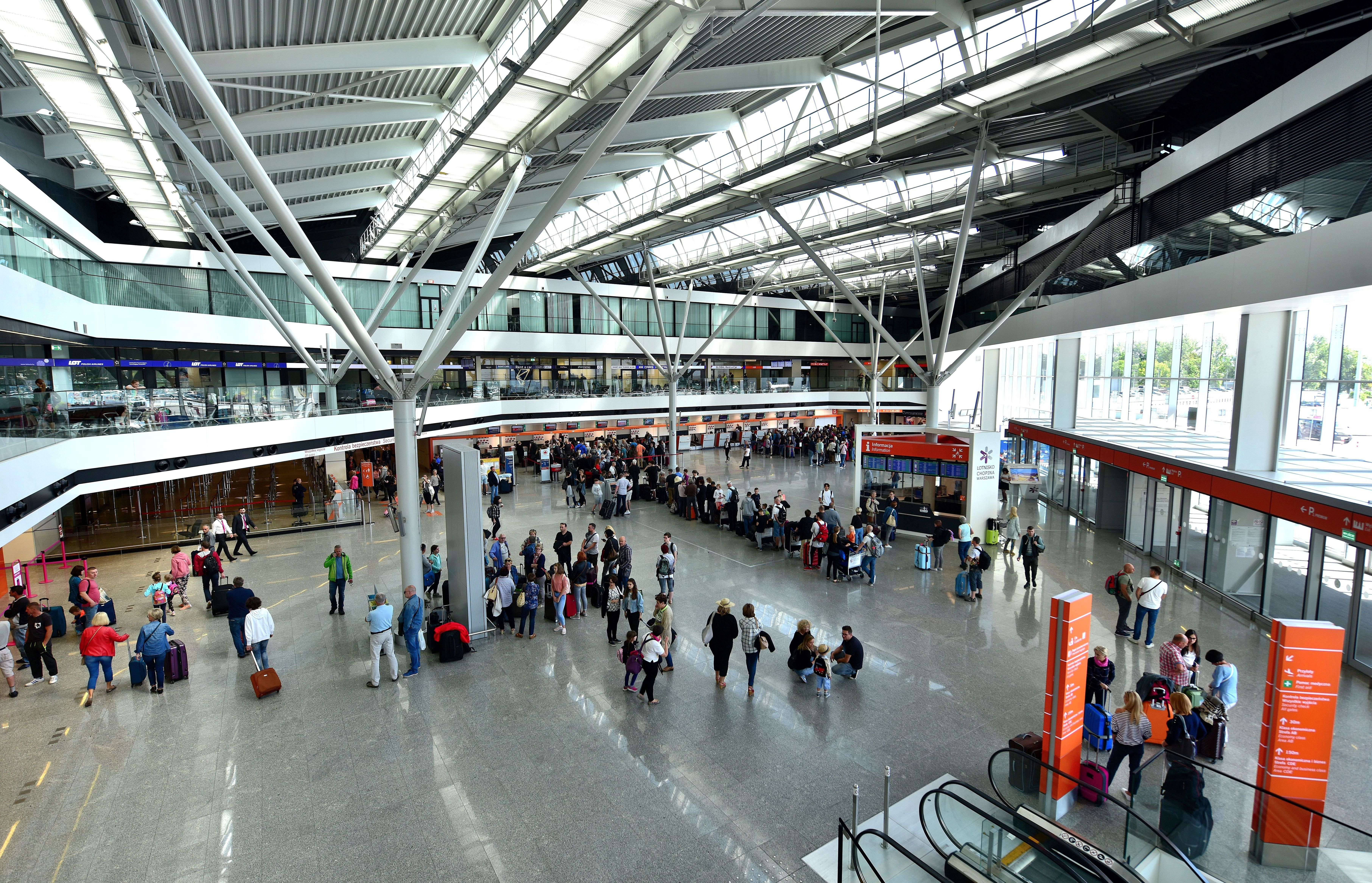 Chopin Airport in Warsaw. Old part of Terminal A after redevelopment